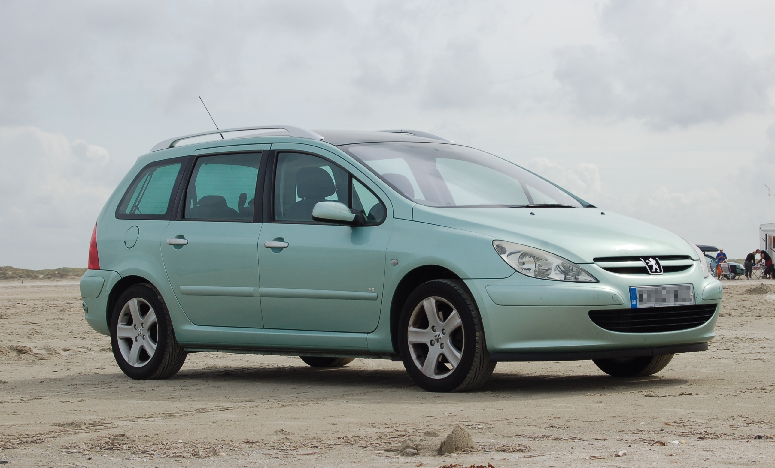 Peugeot 307 sw